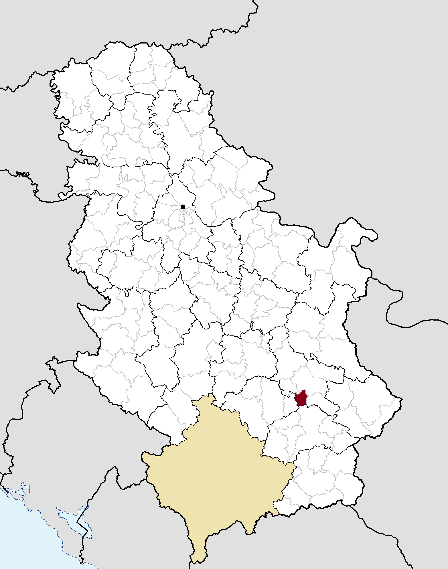 Municipal location in Serbia